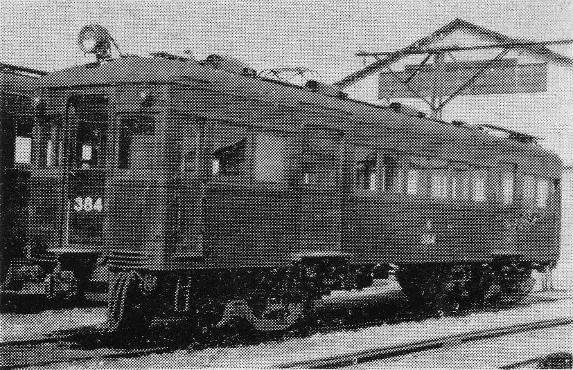 Hankyu Railway No. 384